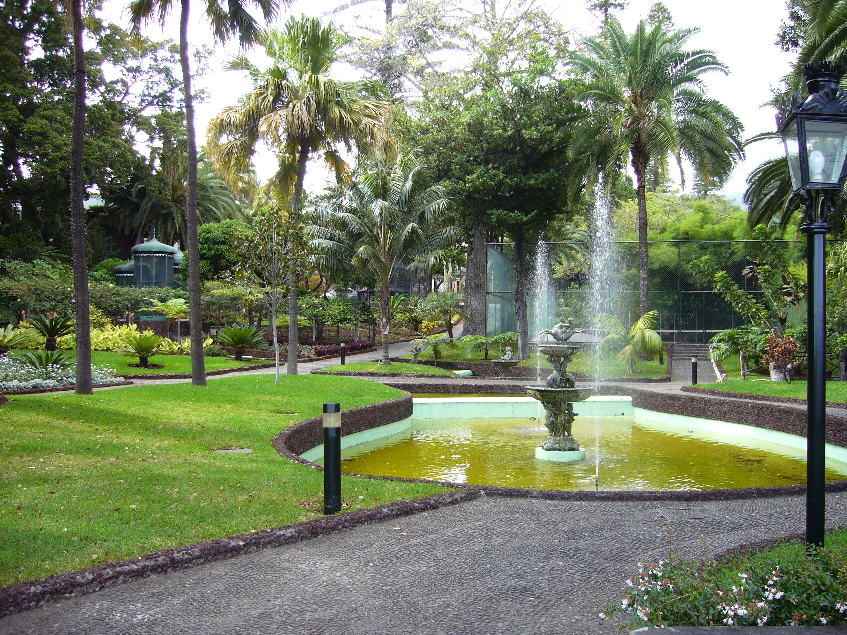 Park of the Quinta Vigia, in Funchal, Madeira.